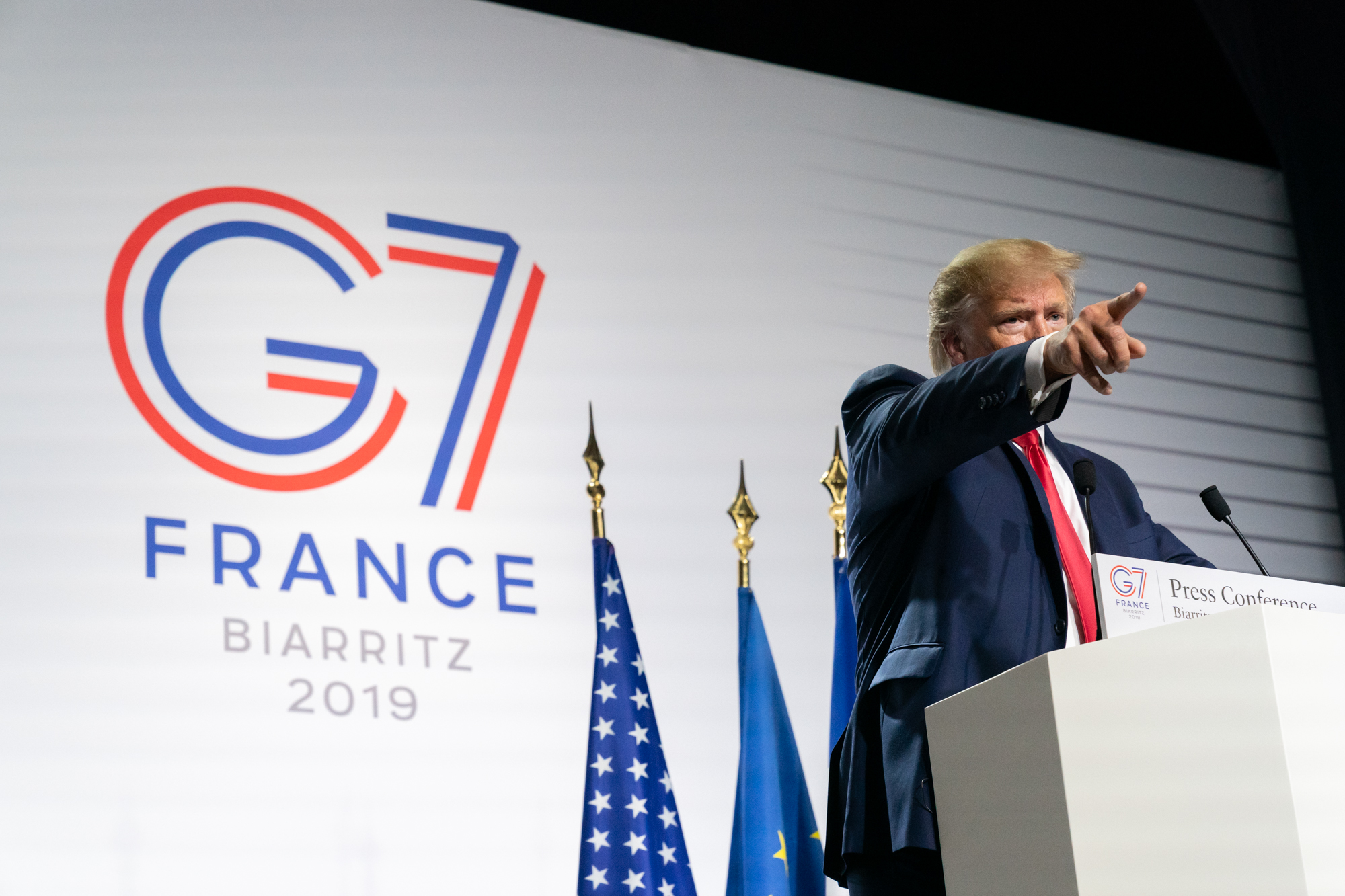 President Donald J. Trump and French President Emmanuel Macron participate in a joint press conference at the Centre de Congrés Bellevue Monday, Aug. 26, 2019, in Biarritz, France, site of the G7 Summit. (Official White House Photo by Andrea Hanks)